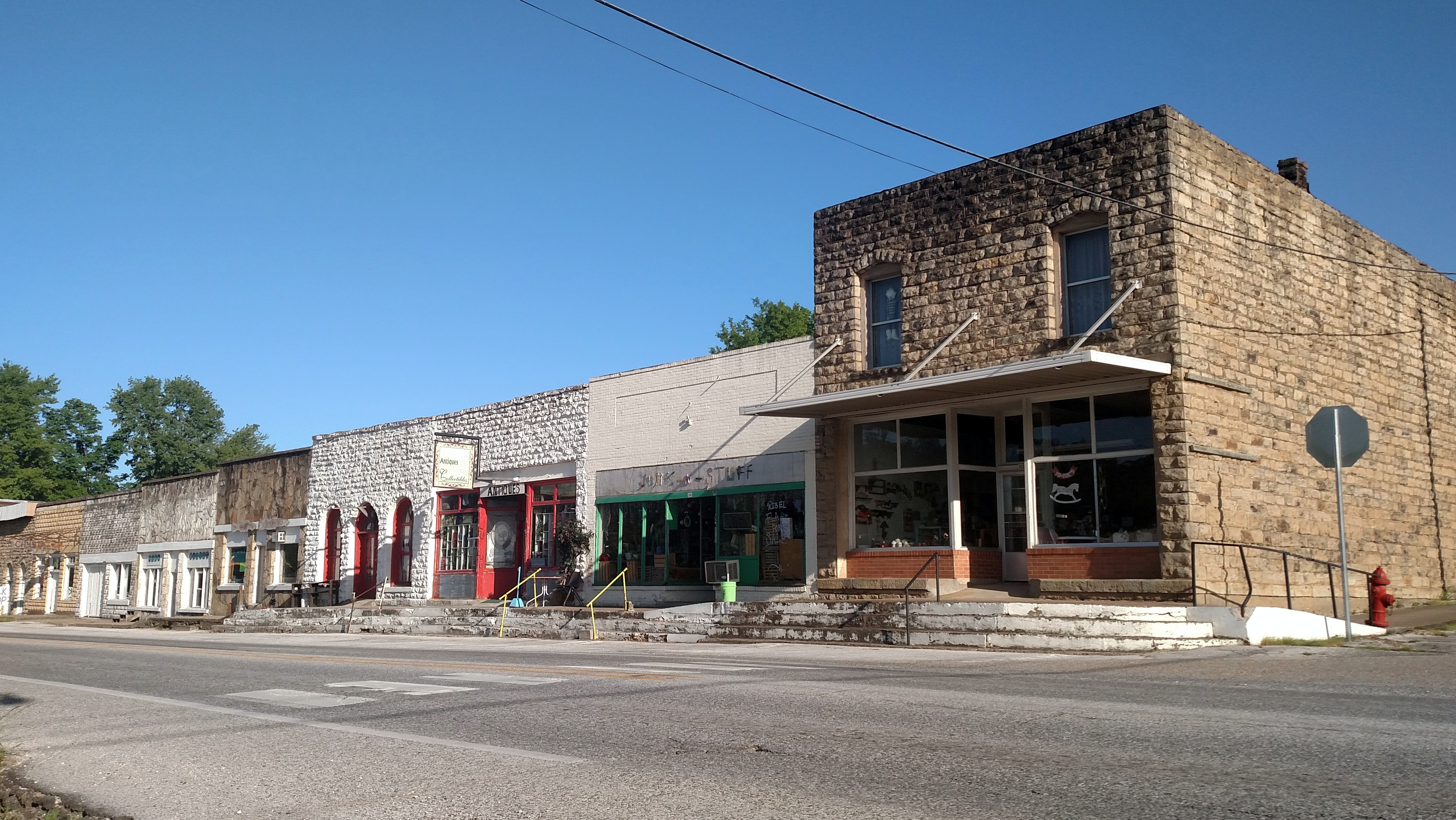 Downtown Alpena along Highway 62